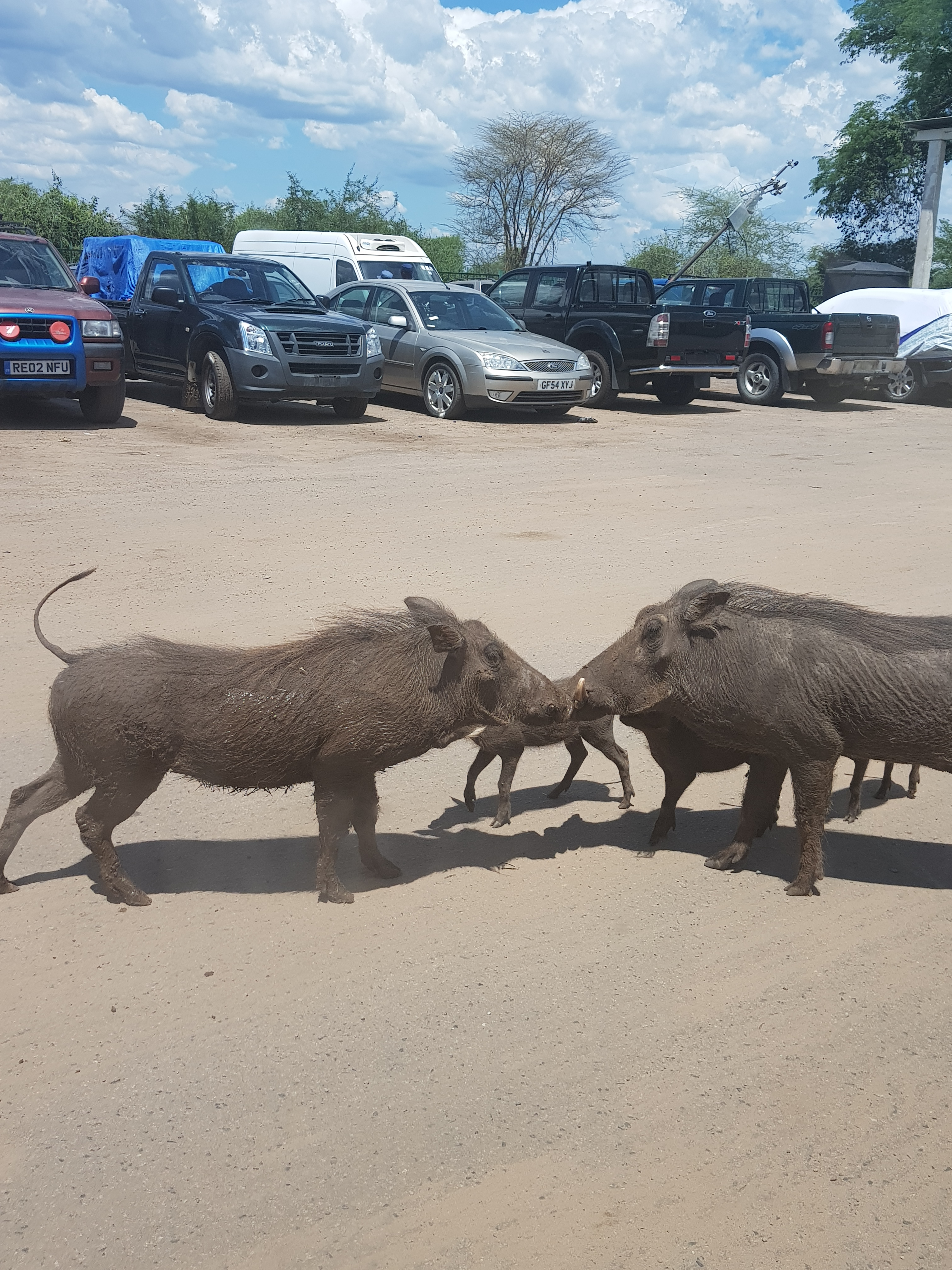 This is an image with the theme "Africa on the Move or Transport" from: Zambia